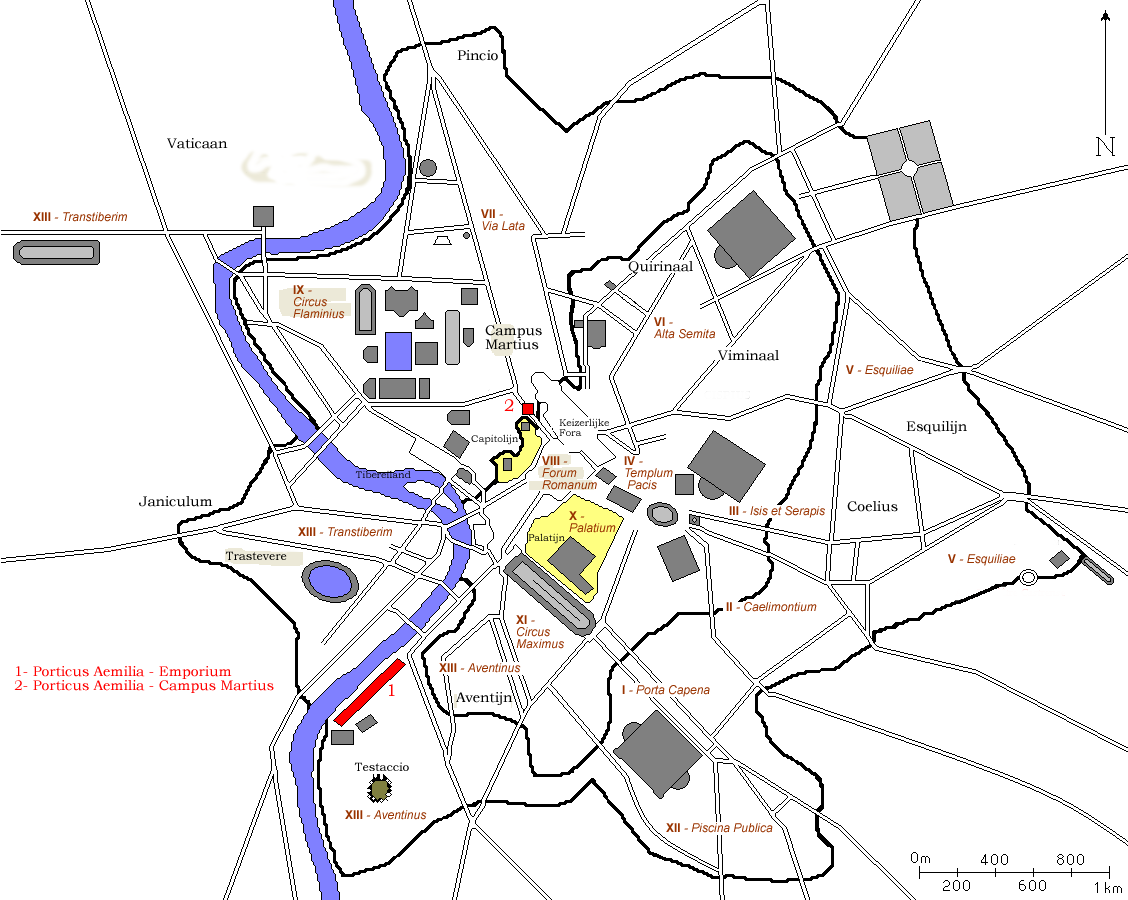 Porticus Aemilia on a map of ancient Rome around 300 AD